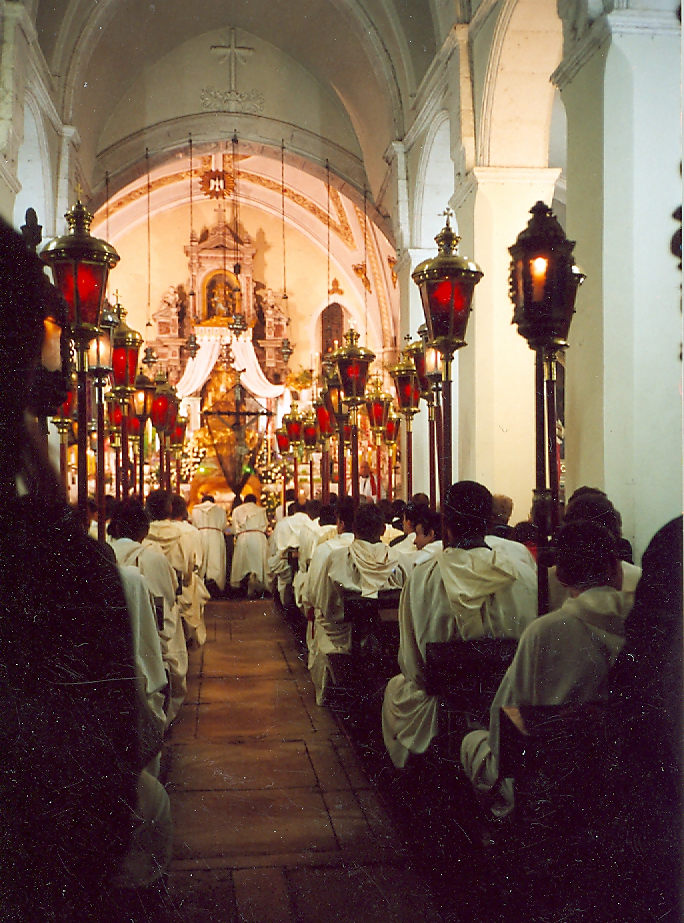 Kreuzprozession in Hvar